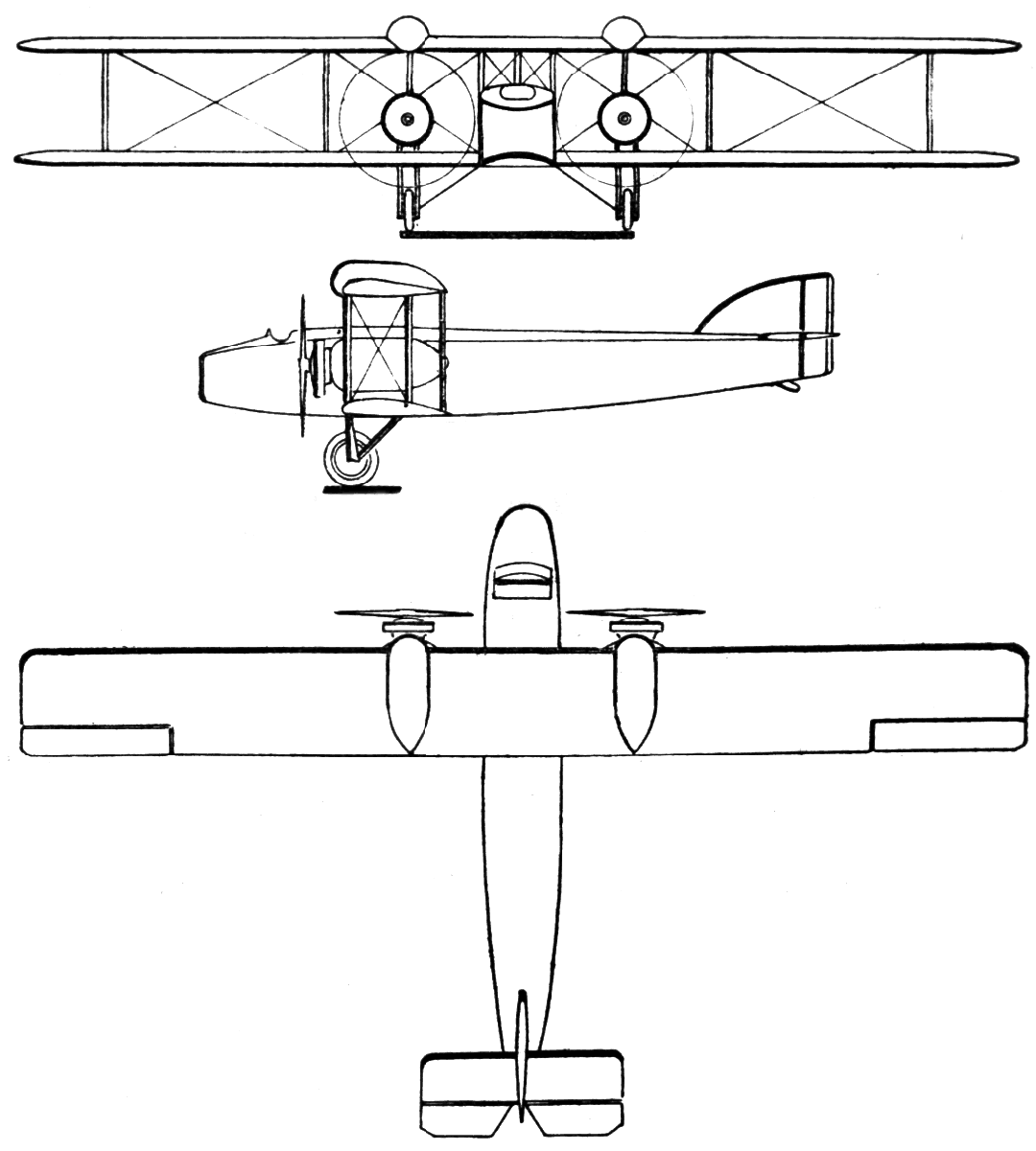 Bleriot 165 3-view drawing from Les Ailes March 8,1928